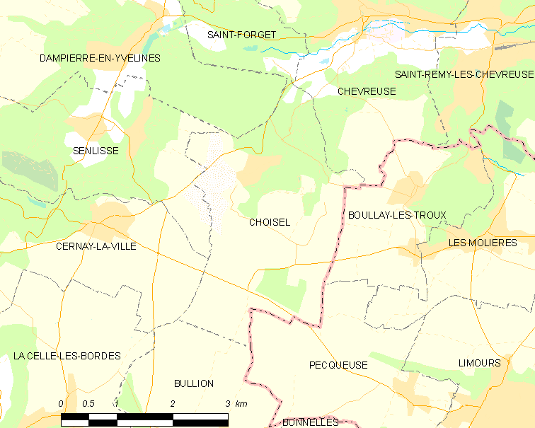 Map of French municipality Choisel